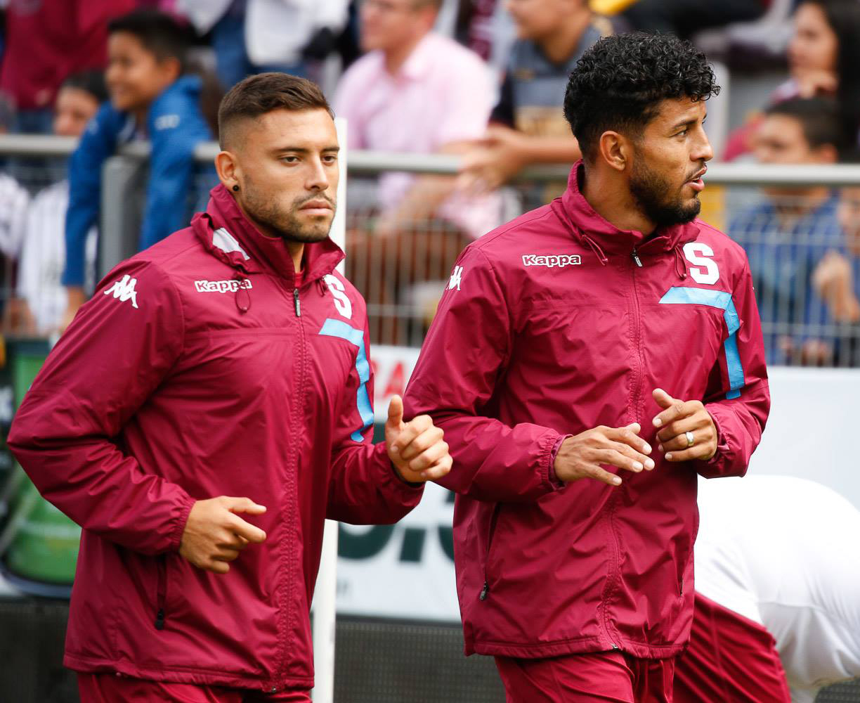 01-18-2018. David Ramírez and Johan Venegas training with Deportivo Saprissa.